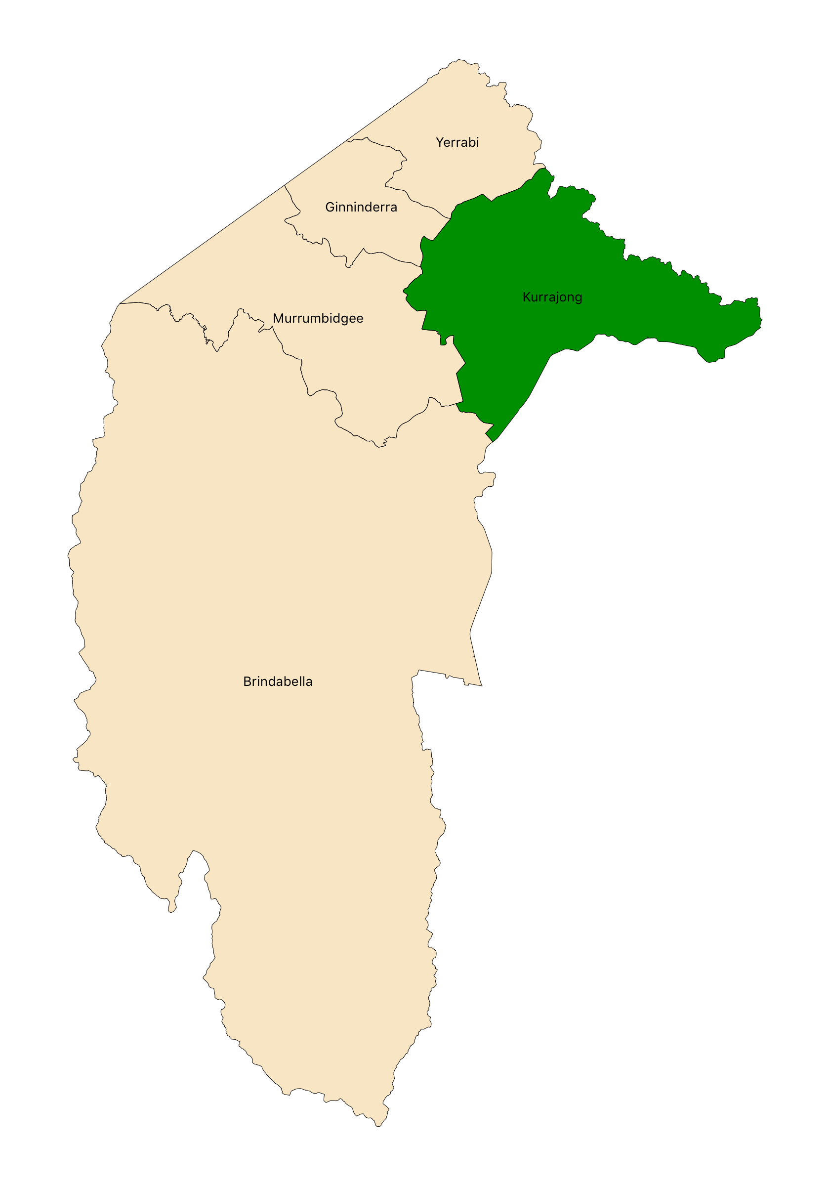 Location of the electorate of Kurrajong in the Australian Capital Territory as of the 2016 Territory election. Incorporates or developed using G-NAF ©PSMA Australia Limited licensed by the Commonwealth of Australia under the Open Geo-coded National Address File (G-NAF) End User Licence Agreement